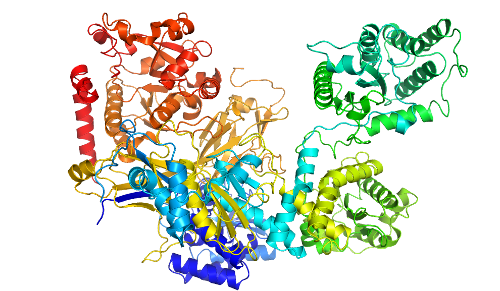 A cartoon diagram of the open conformation of Chaetomium Thermophilum UGGT.png, as per the crystal structure in PDB ID 5MZO.